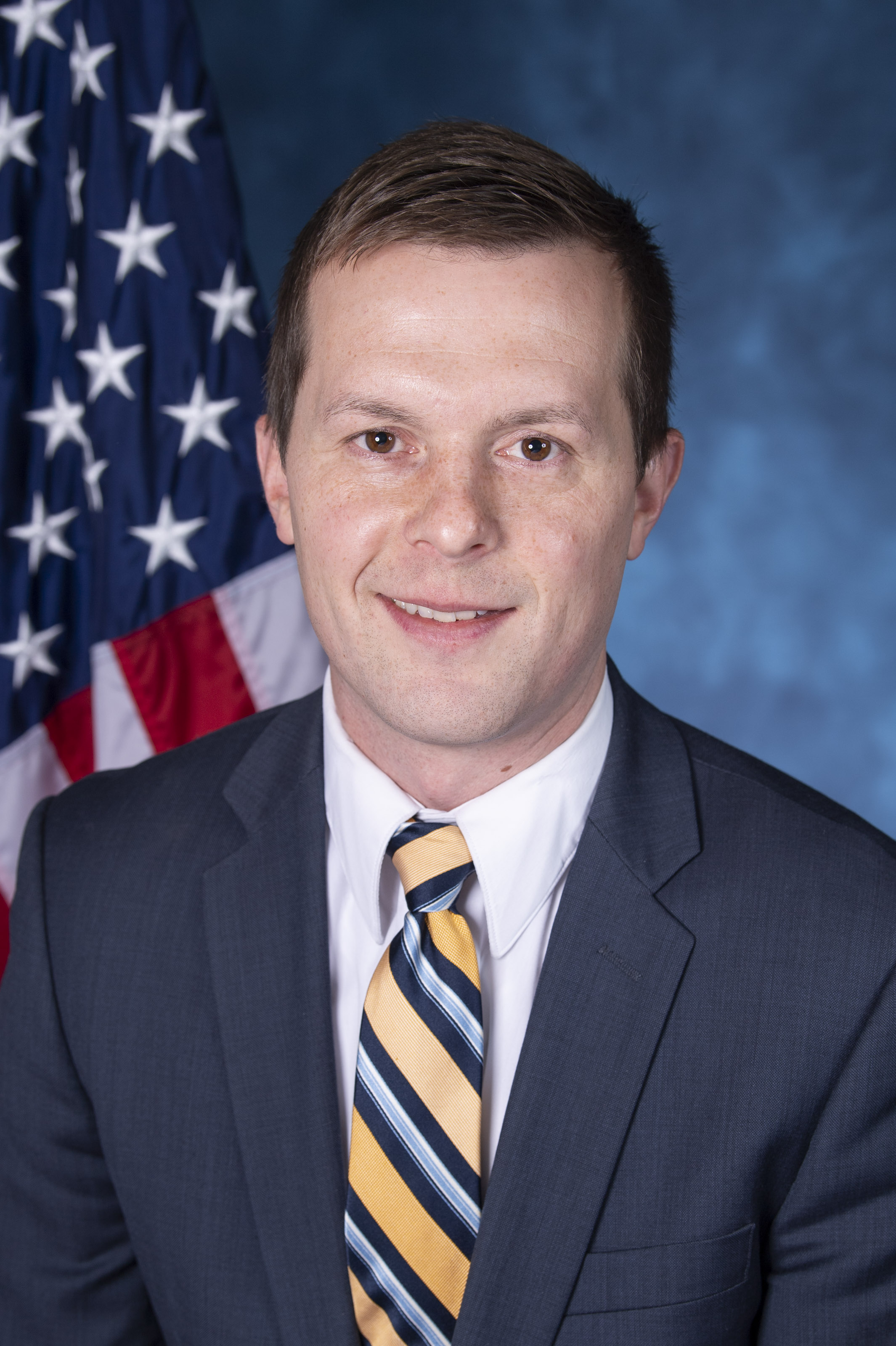 Photo of Rep. Jared Golden (D-ME02)